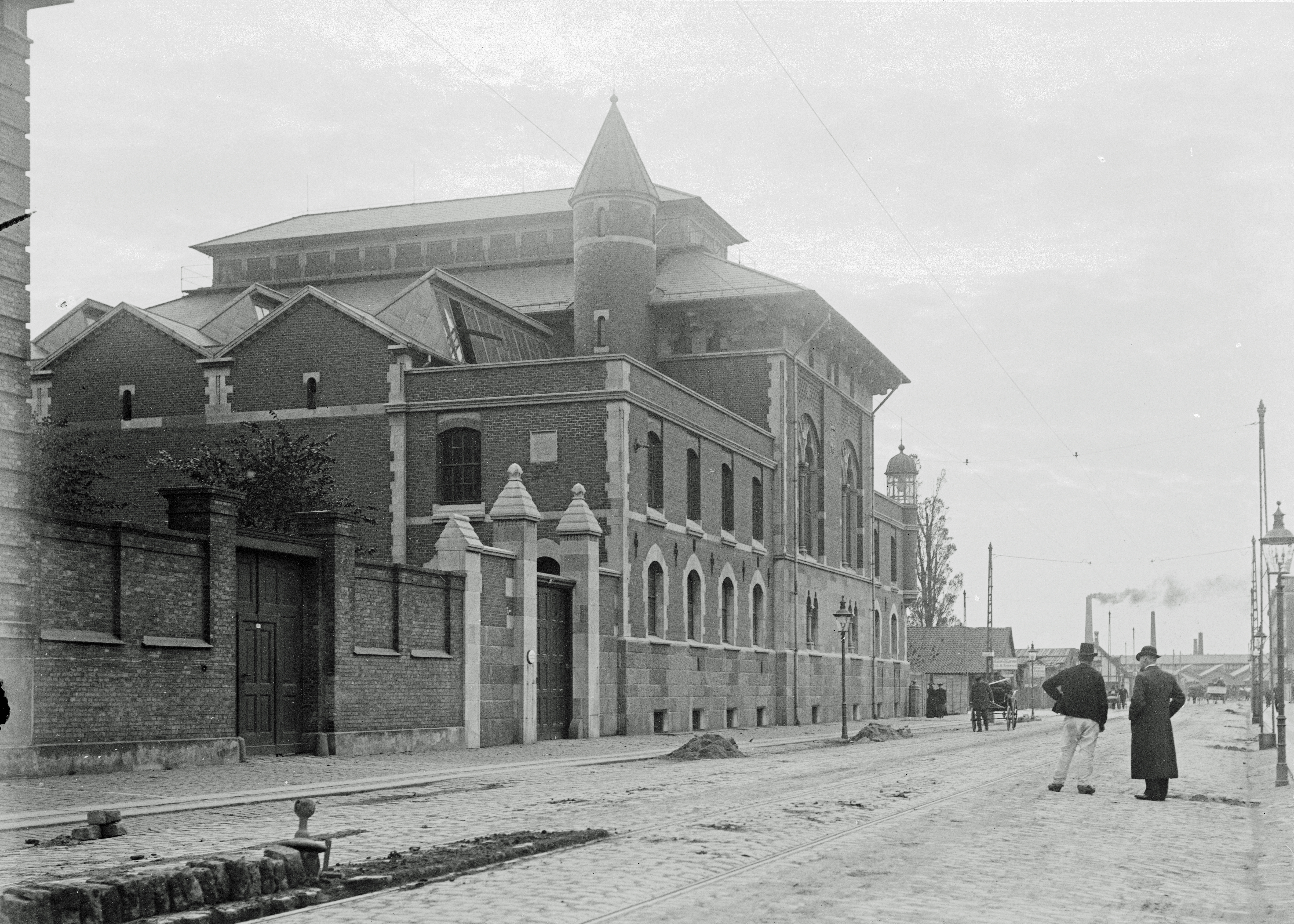 Vestre elektricitetsværk in Copenhagen, Denmark